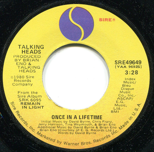 A-side label of "Once in a Lifetime" by Talking Heads; US vinyl release